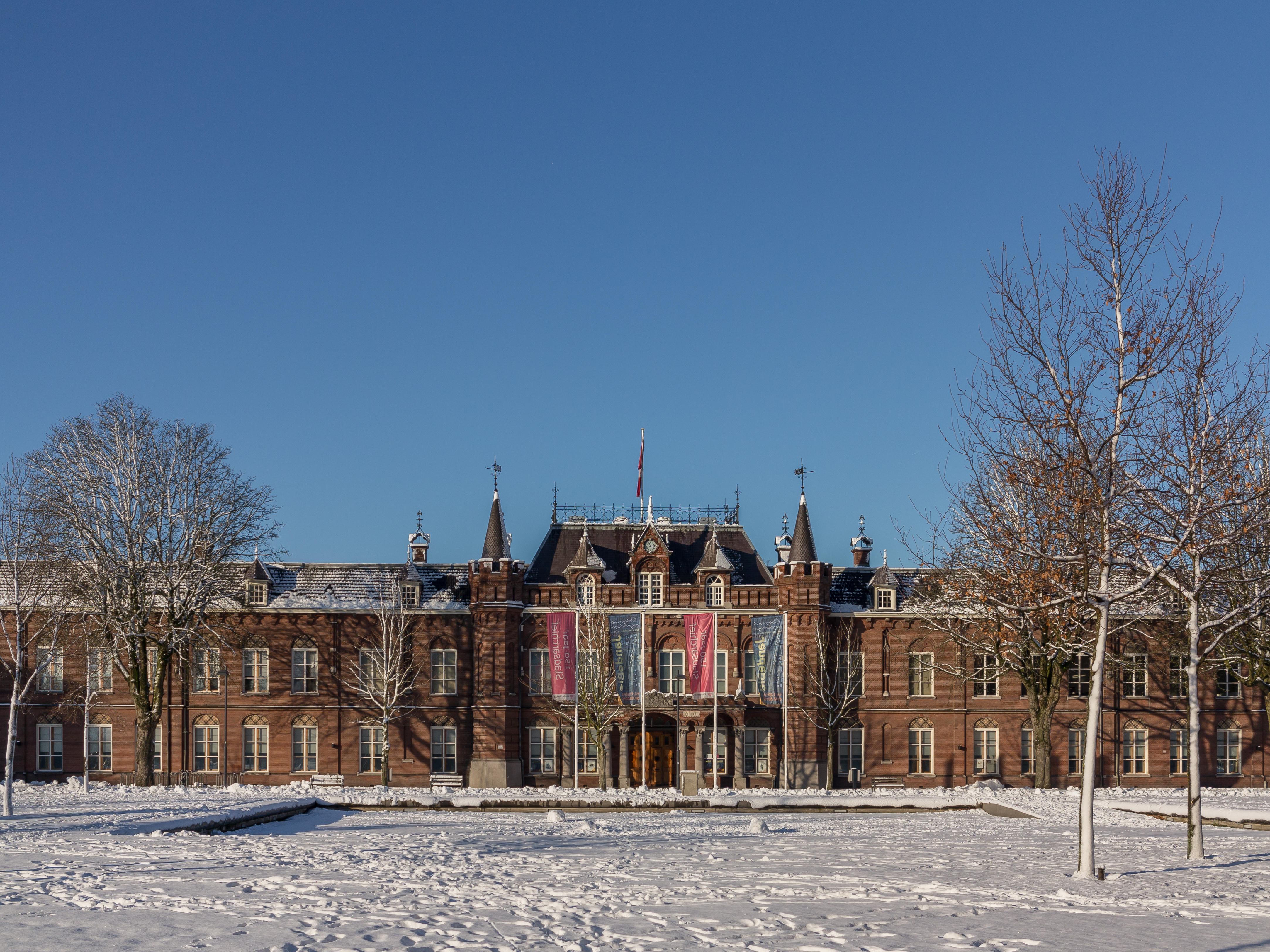 Part of Chassekazerne